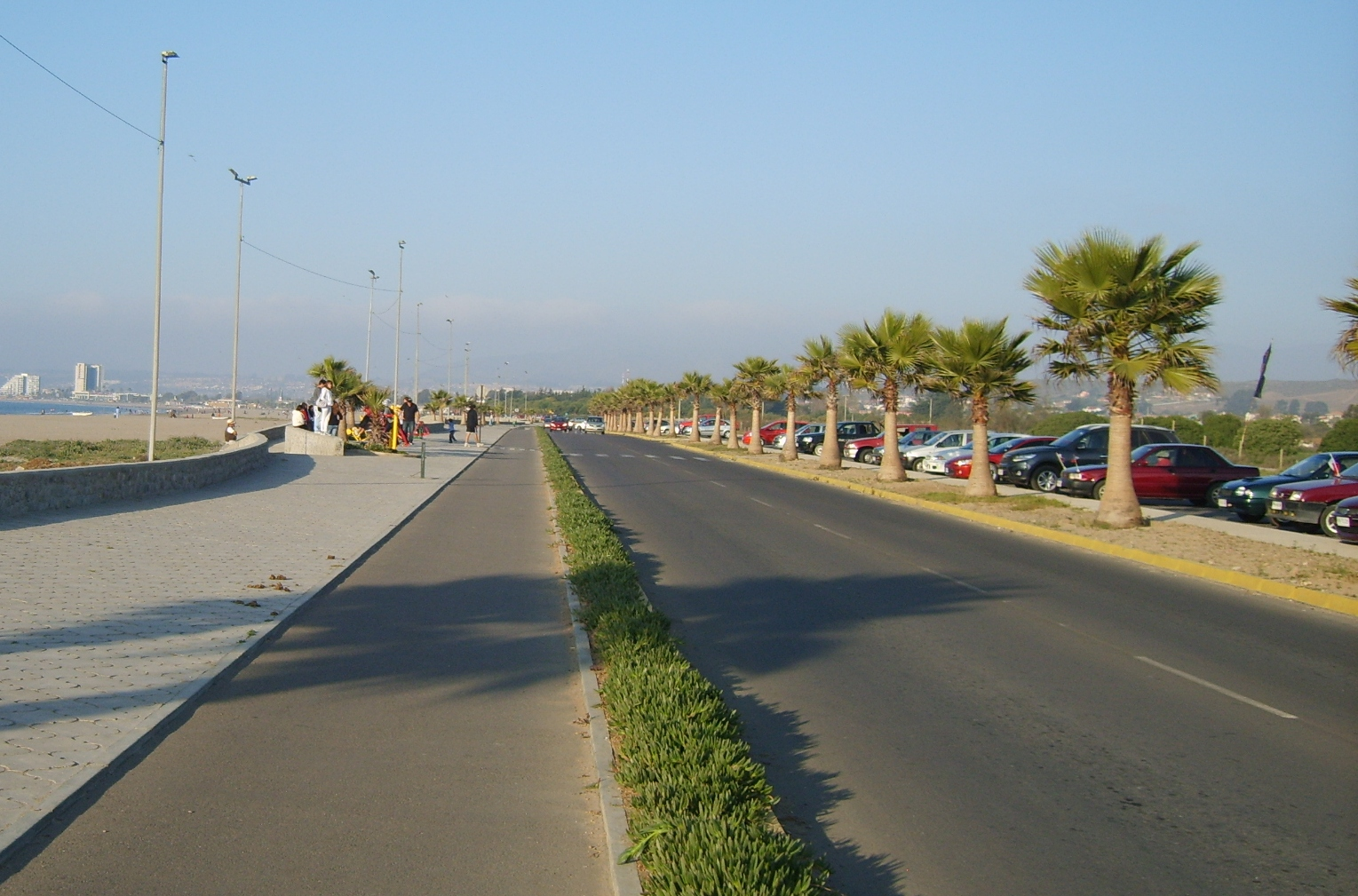 View of Costanera Avenue in Coquimbo, Chile.